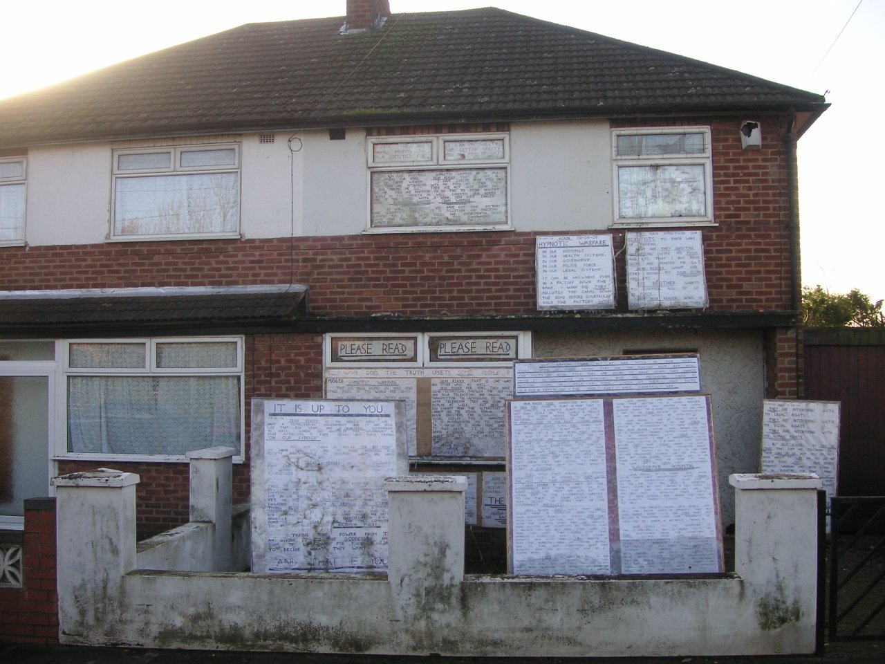 House decorated with bizarre writings. The inhabitant is presumed to suffer from schizophrenia.